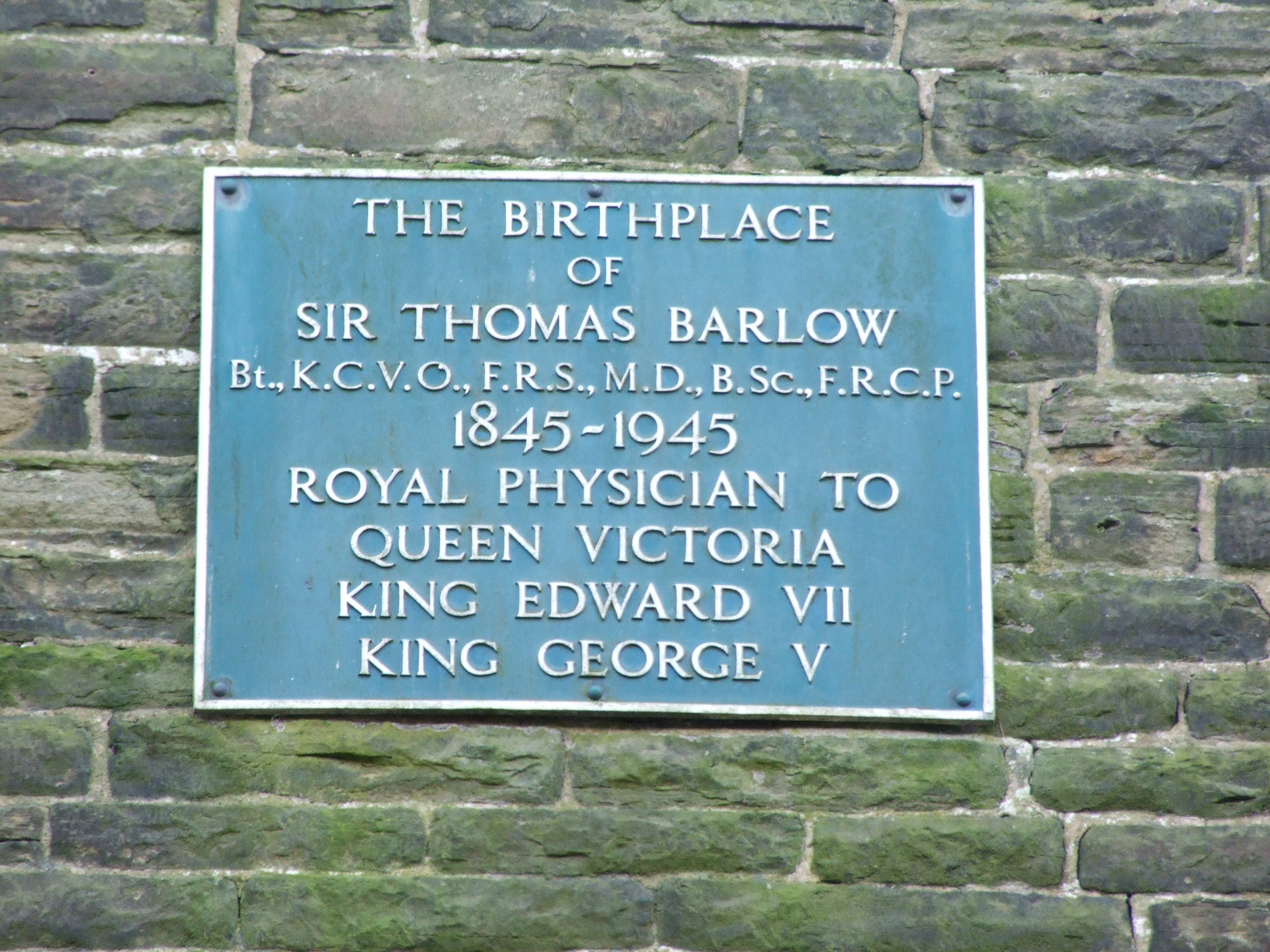 Sir Thomas Barlow, 1st Baronet Plaque to Thomas Barlow at his birth place.